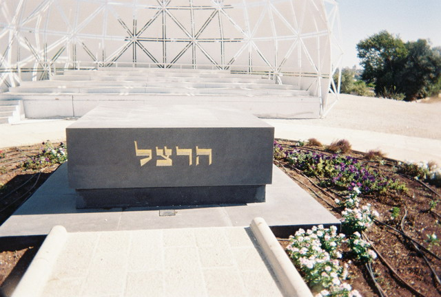 Grave of Theodor Herzl